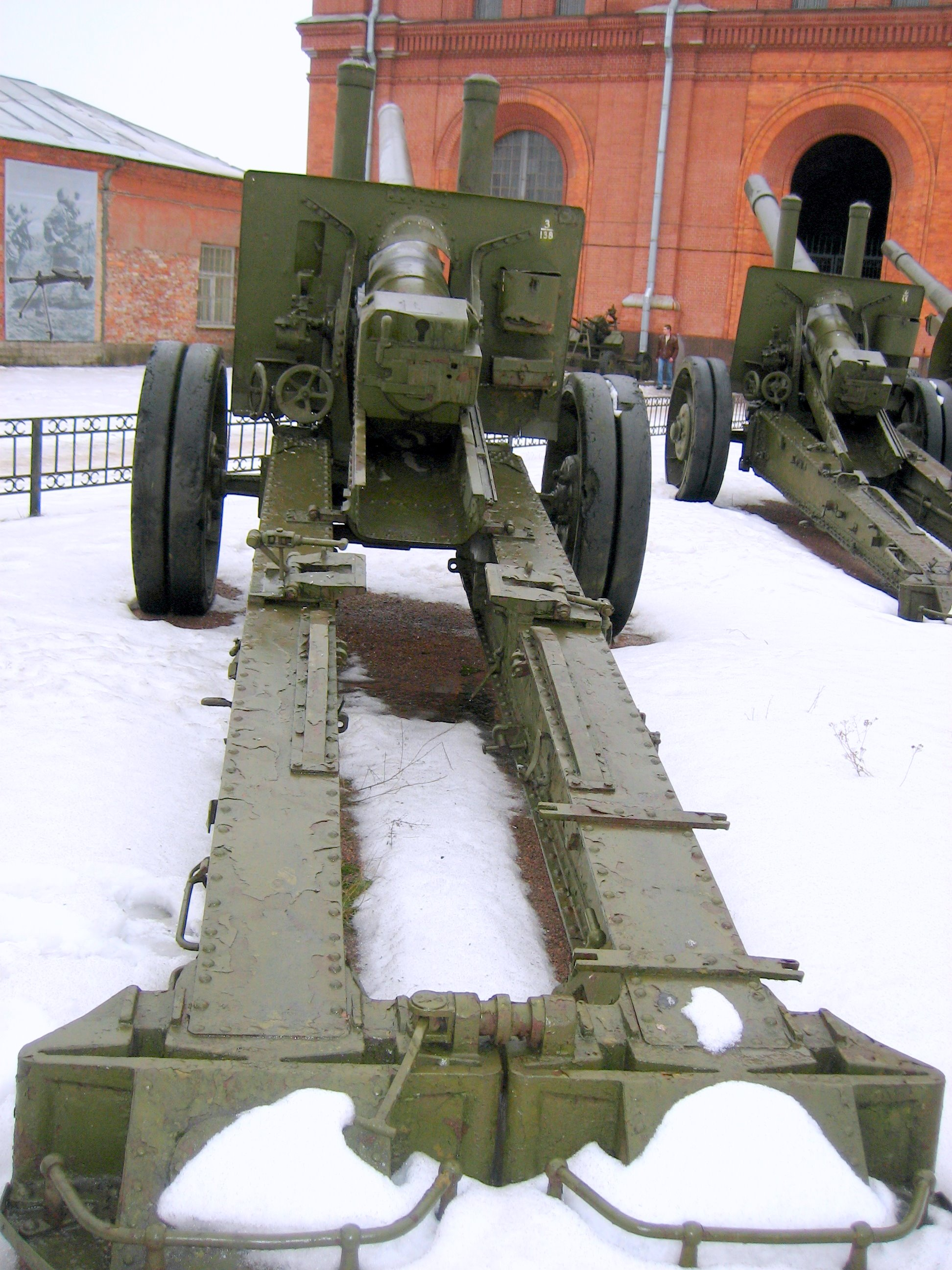 Soviet 122 mm А-19 Mark 1931 gun, displayed in Saint Petersburg Artillery Museum. Photo taken on 3 Marсh, 2007. Source: Photo by me, User:Saiga20K.